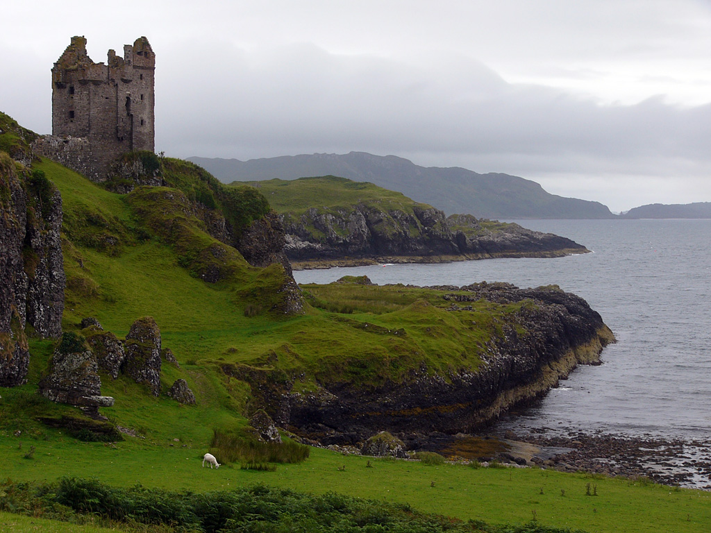 Gylen Castle, on the isle of Kerrera, Scotland.